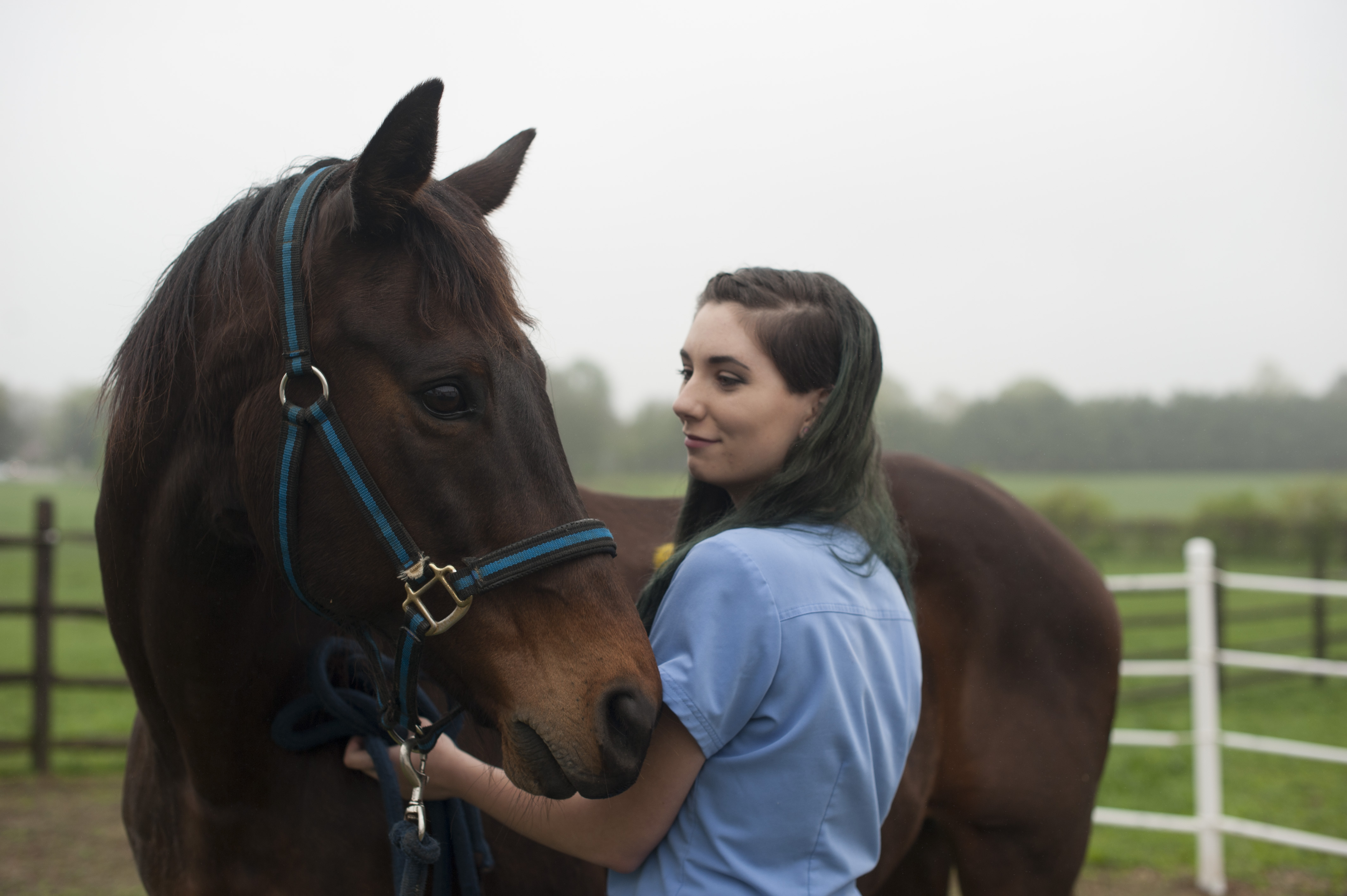 Photo of vet tech student interacting with horse